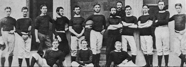 One of the first teams of Irish Dublin University FC, the oldest rugby union club still existing.